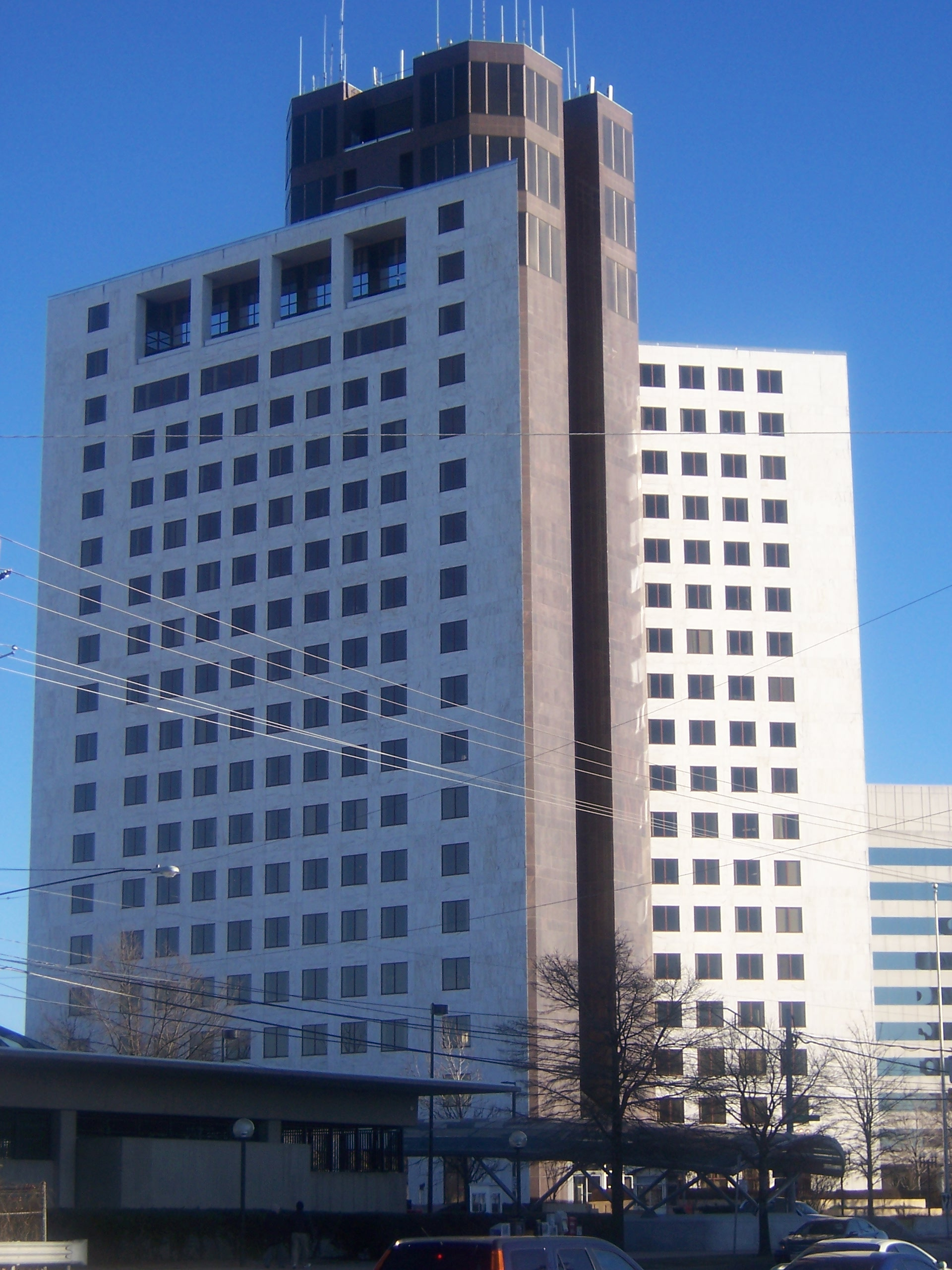 The headquarters of the Nuclear Regulatory Commission in Bethesda MD.